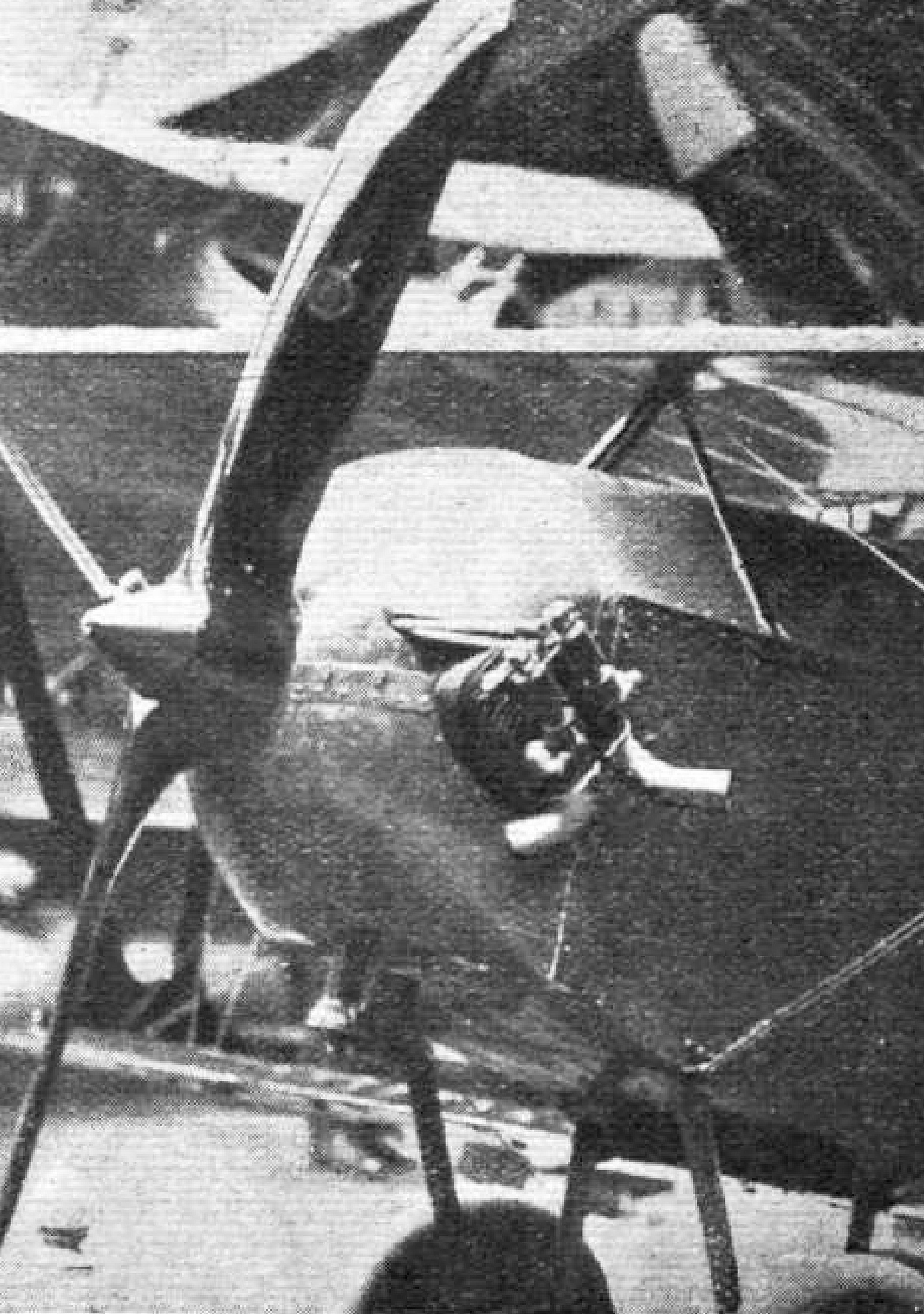 A 40hp Siddely Ounce fitted to a Bristol Babe light sport aircraft